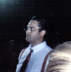 Irwin R. Schyster at a WWF event in 1994